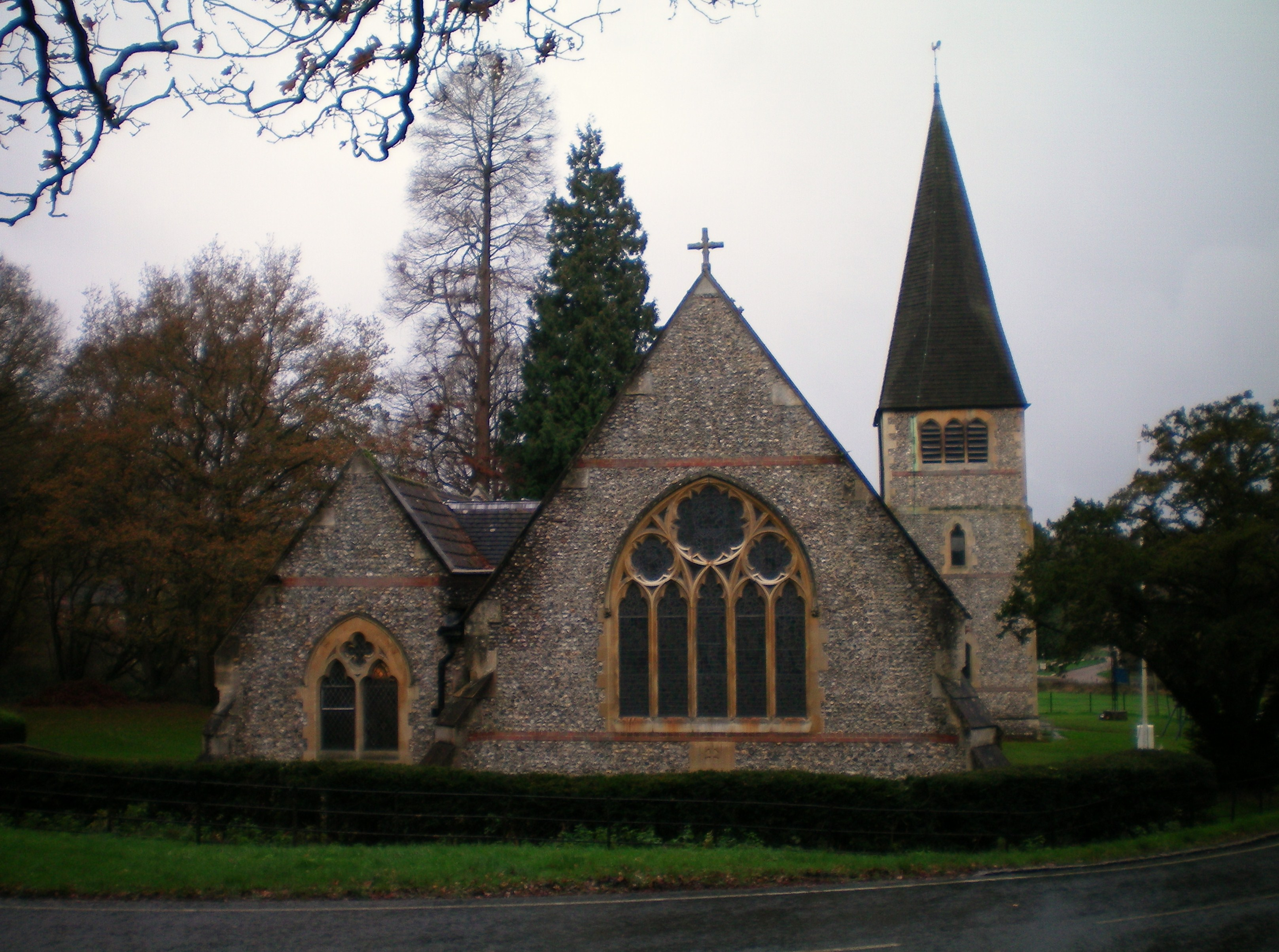 Anglican church of St John the Evangelist, North Holmwood, Surrey, England.